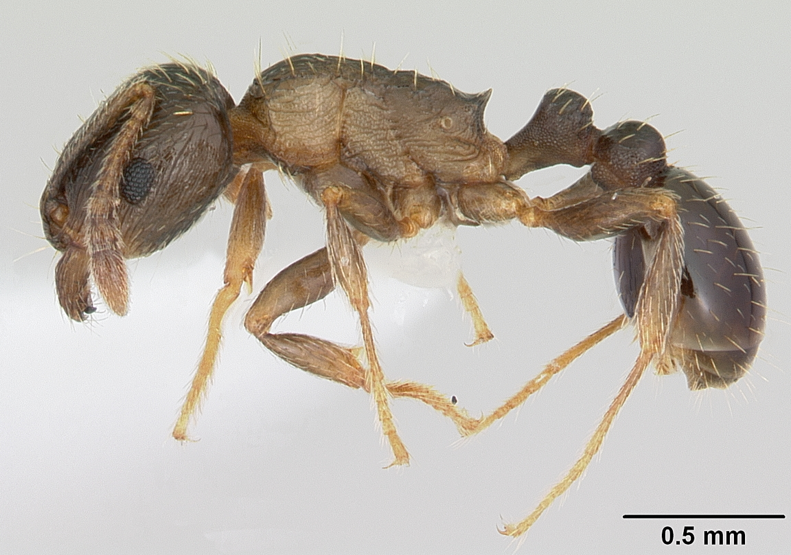 Profile view of ant Tetramorium tsushimae specimen casent0103102.